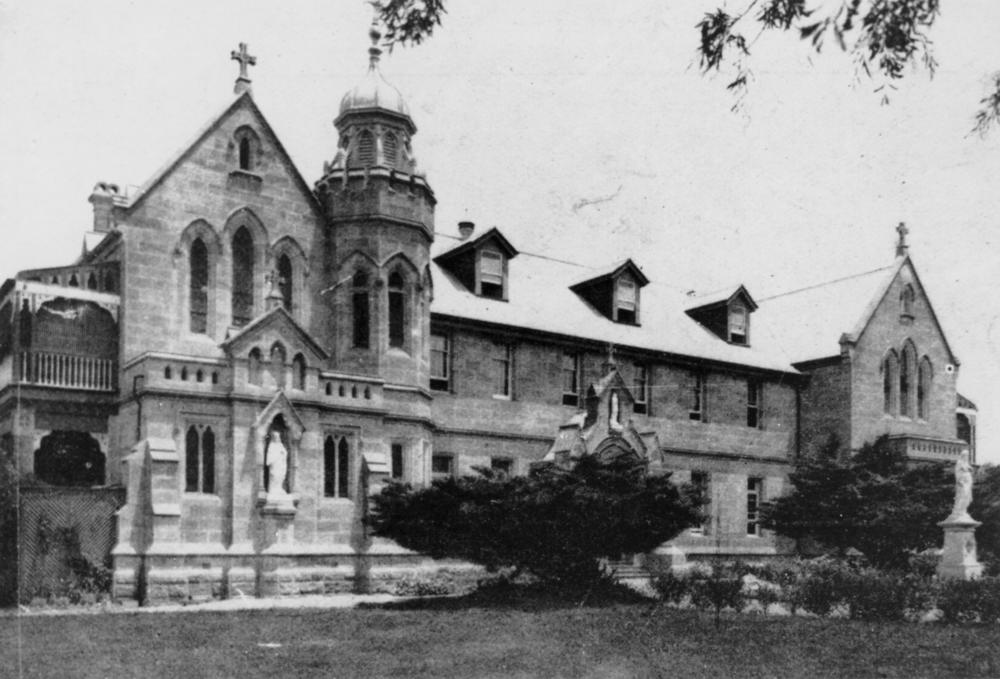 Our Lady of Assumption Convent, Warwick, 1933 Built for the Sisters of Mercy this Sandstone two-storey building with side verandahs. The front of the building features statues of the Virgin Mary, crucifixes on the gable ends of the building and a round tower to the left of the entry. Corner of Locke & Dragon Street Warwick QLD Australia.